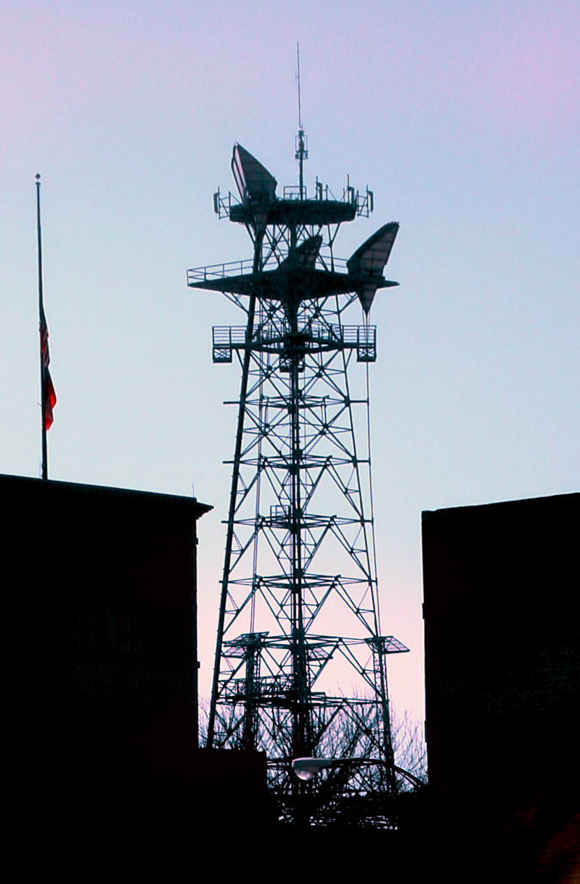 Augusta, Georgia, USA. Radio tower located in the downtown area.